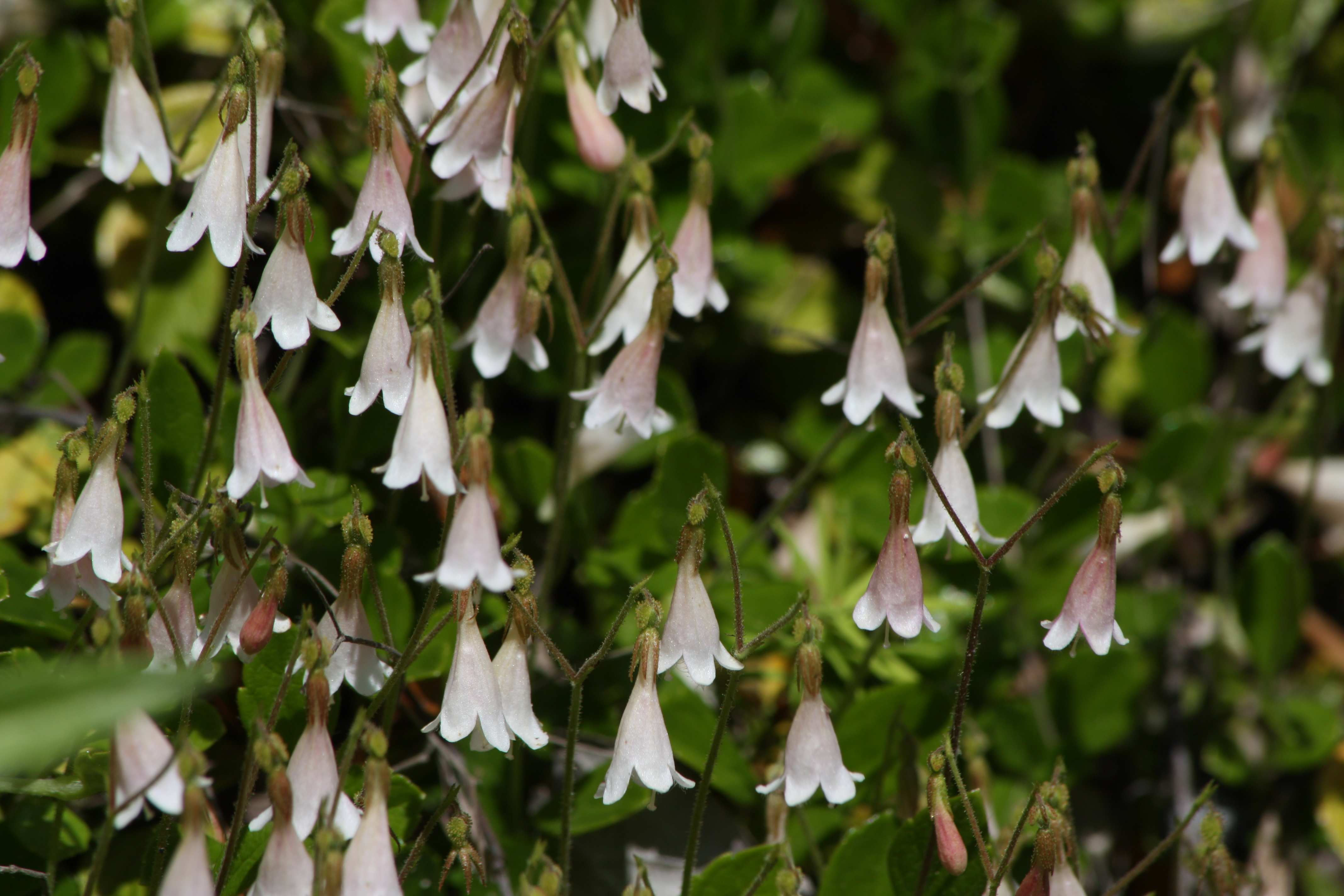 American Twinflower